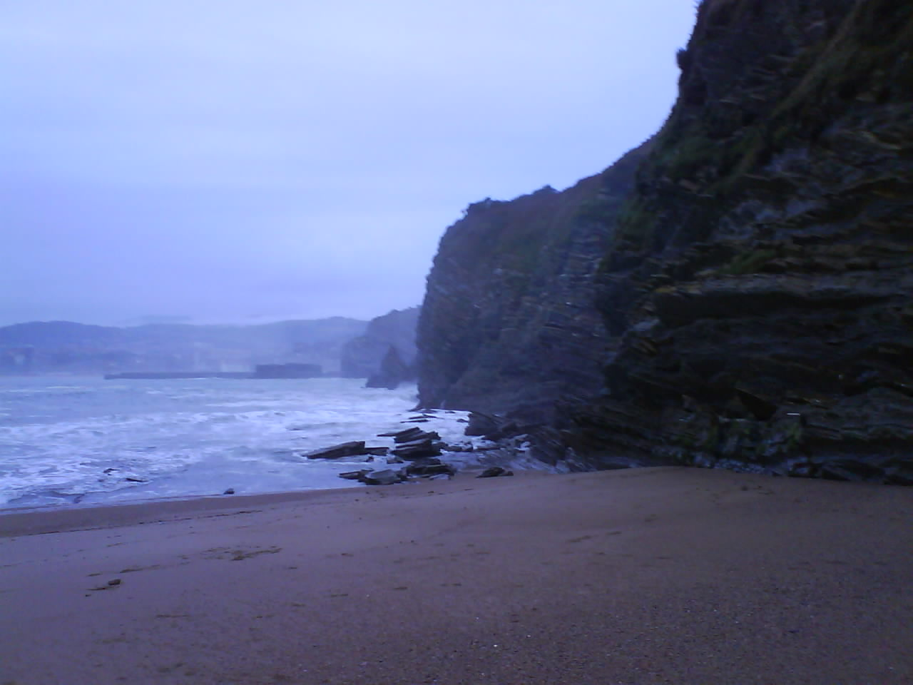 Muriola hondartza, Barrika; Muriola beach, Barrika, The Basque Country